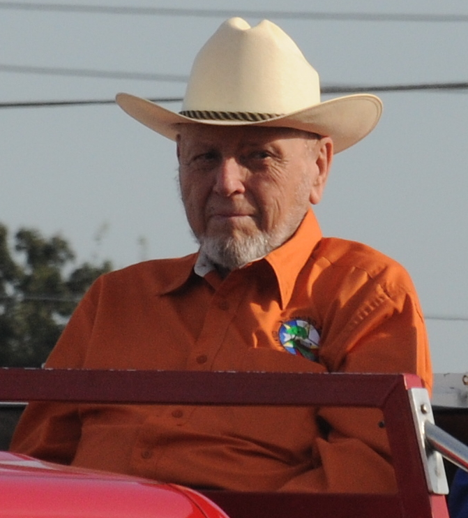 Former mayor of Richmond, Texas Hilmar Moore (1920-2012).